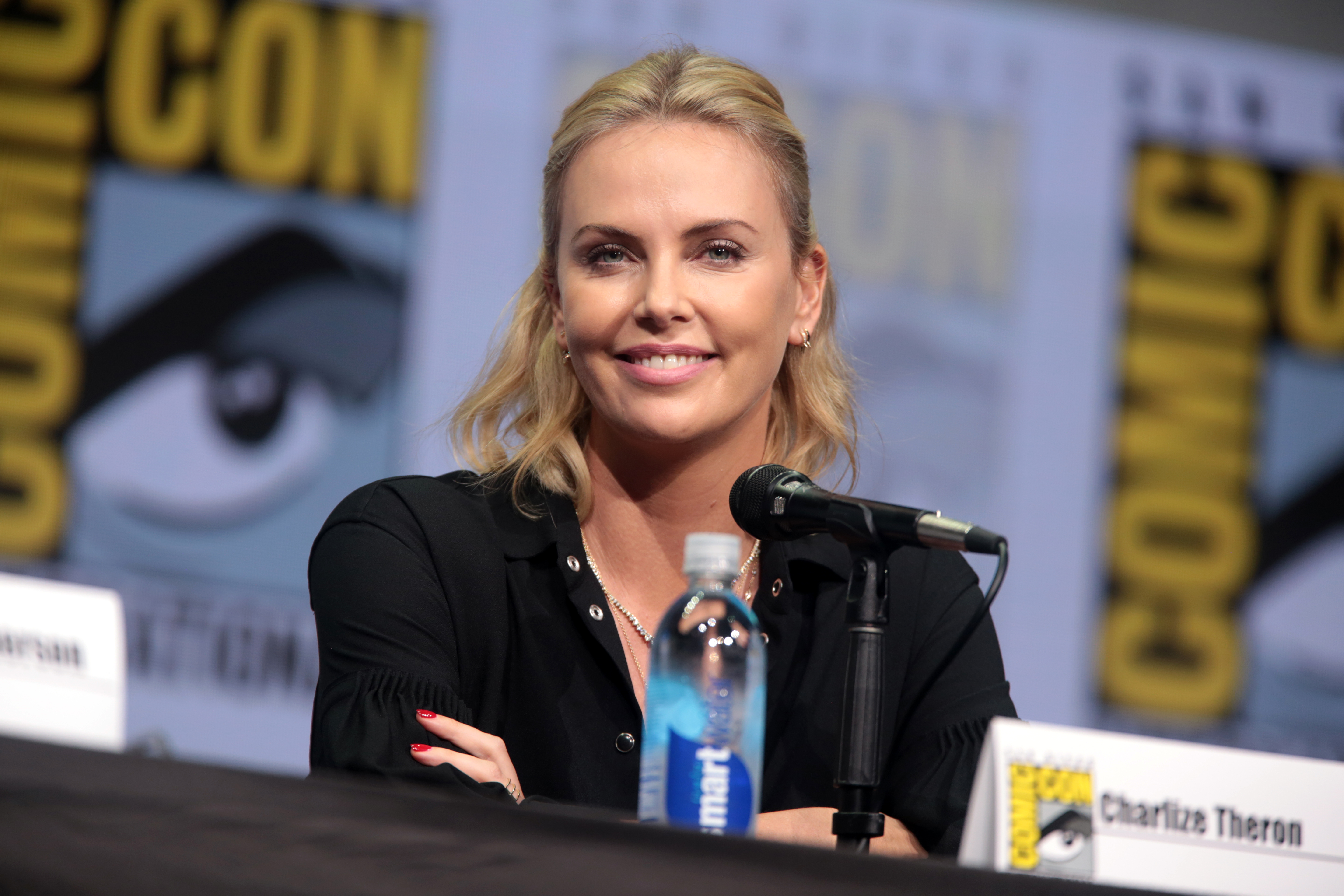 Charlie Theron speaking at the 2017 San Diego Comic Con International, for "Entertainment Weekly: Women Who Kick Ass", at the San Diego Convention Center in San Diego, California.